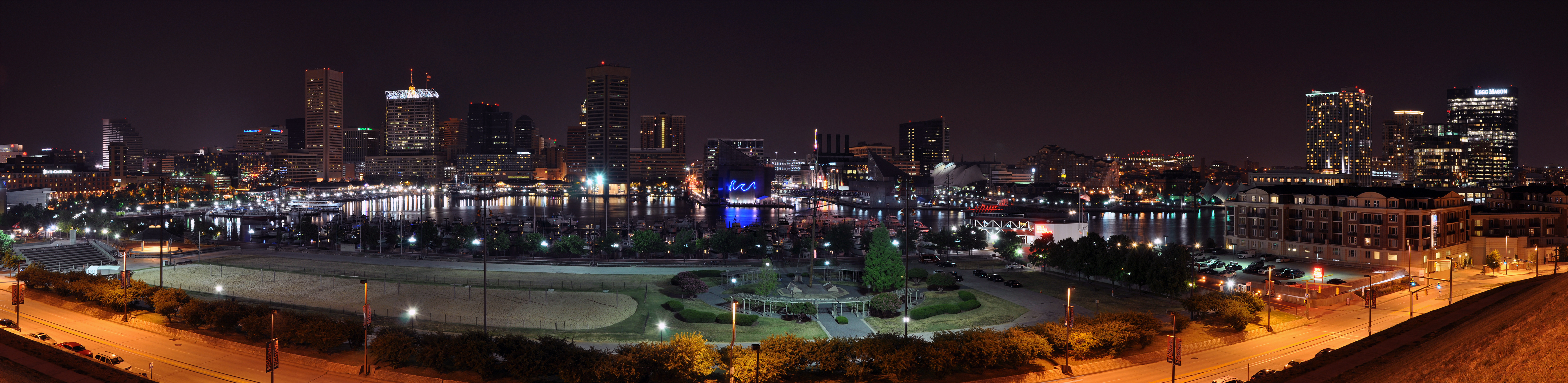 A four segment panorama of Baltimore's Inner Harbor skyline taken at night from Federal Hill.